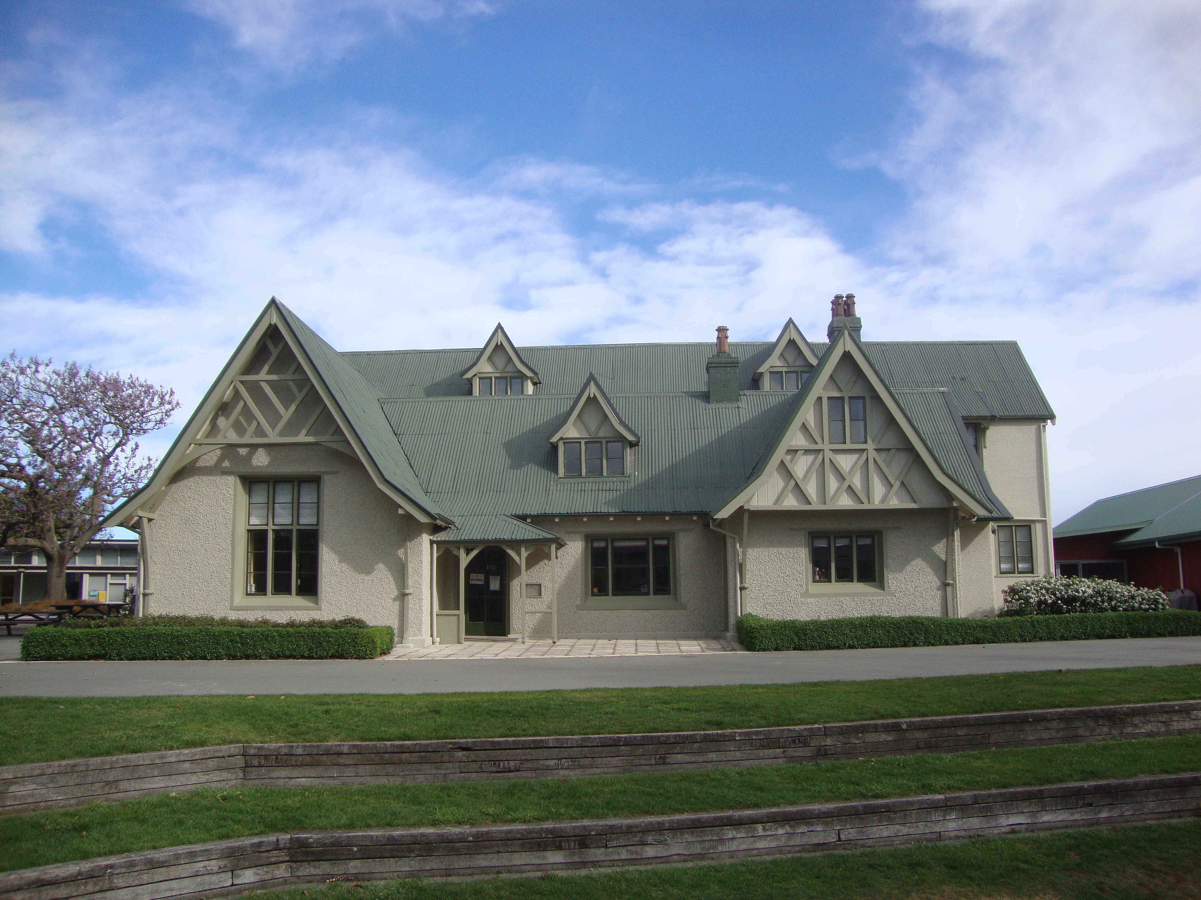 Middleton Grange homestead in October 2012.